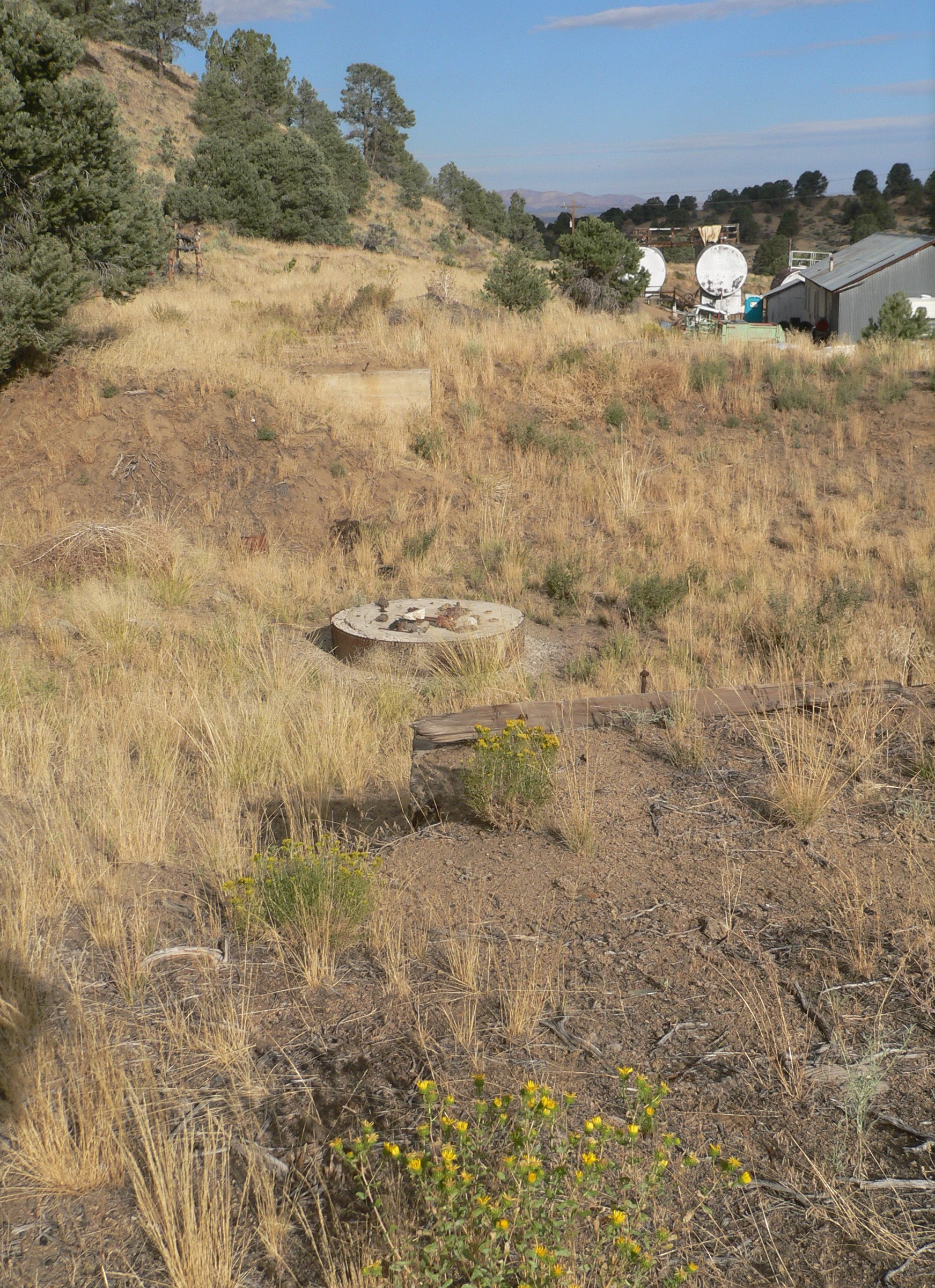 Nevada Central turntable, located in northwestern outskirts of Austin, Nevada. View is from the east side, looking generally westward along what was presumably the line of the tracks.